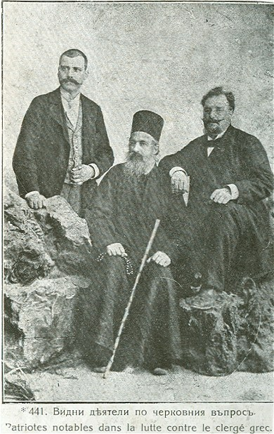 Plevnya_activists_for_indipendent_bulgarian_church